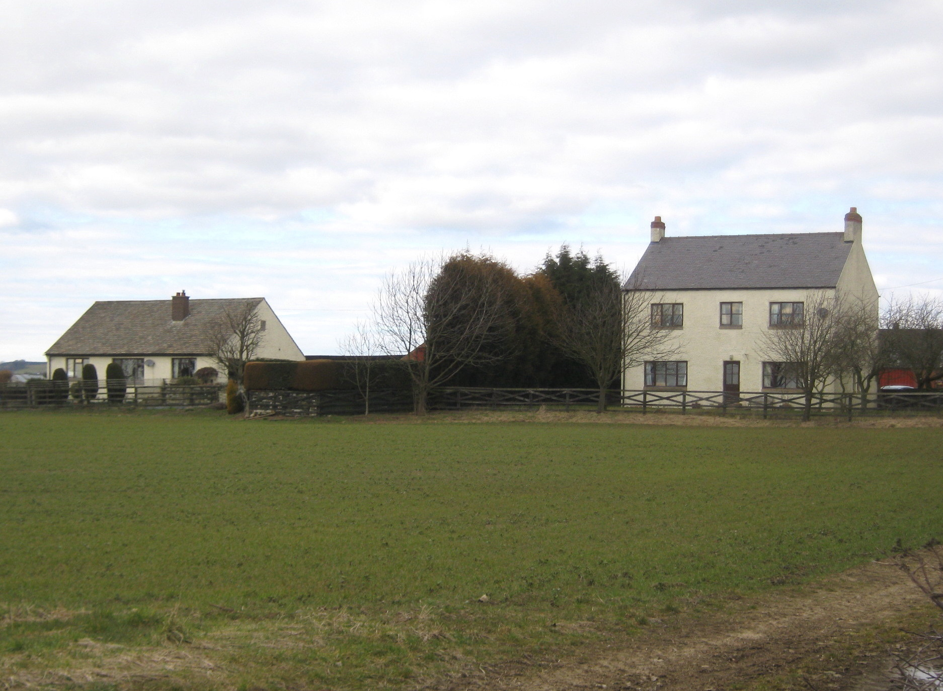 Swan House Farmhouse and Cottage, near to Walworth, Darlington, Great Britain, next to the A68 north of Darlington.